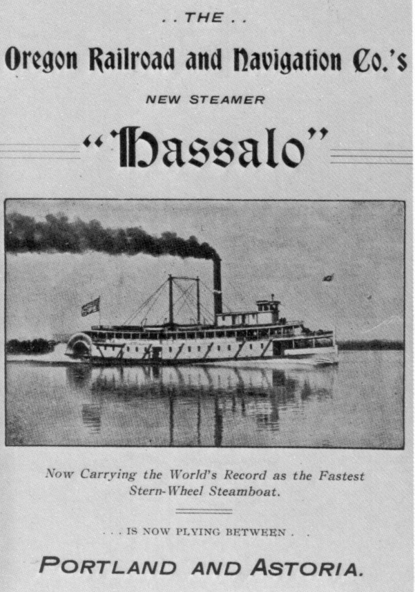 Advertising poster for the second Hassalo, built 1899.